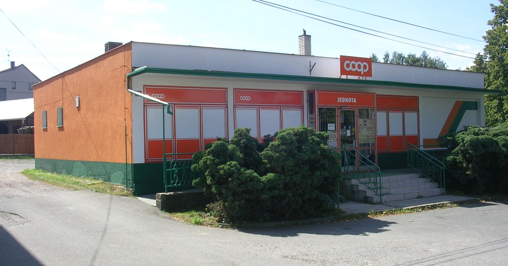 Broumy, Beroun District, Central Bohemian Region, the Czech Republic. A shop. - Google Maps - Google Earth